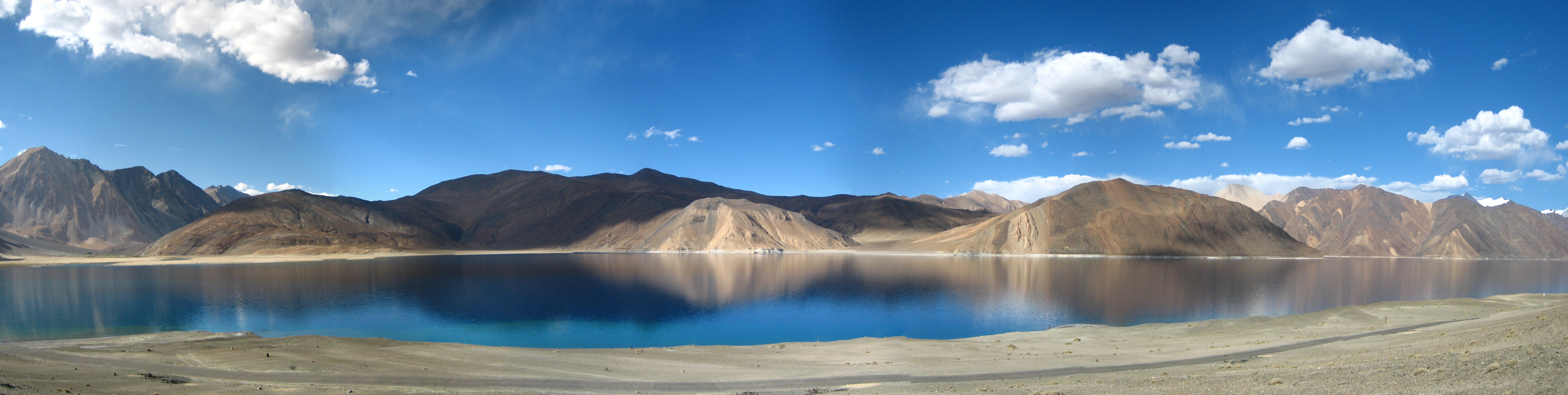 A panoramic view of the various blues of the Pangong Tso lake. The sunset puts life into the lake with shadows and plays of light.